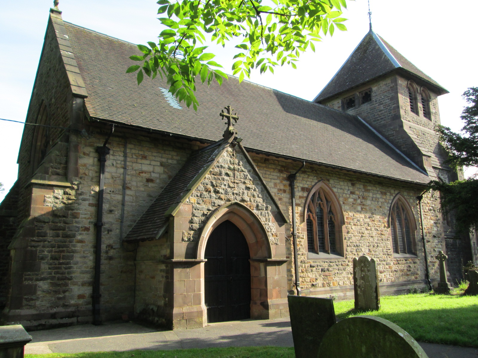 St Matthew's parish church, Meerbrook, Staffordshire, seen from the southwest